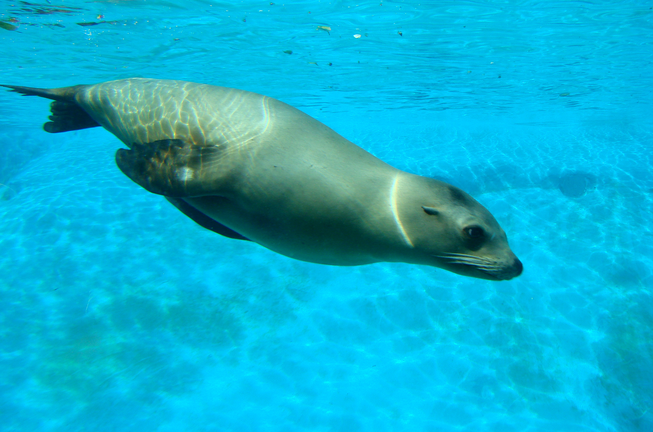 A sea lion (Zalophus californianus), zoo of Amnéville, France.